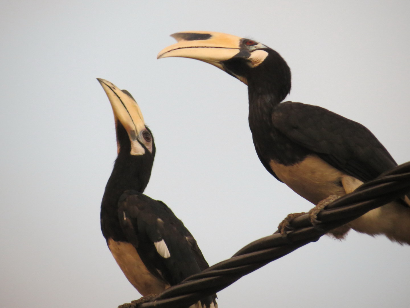 Oriental pied hornbills in Malaysia